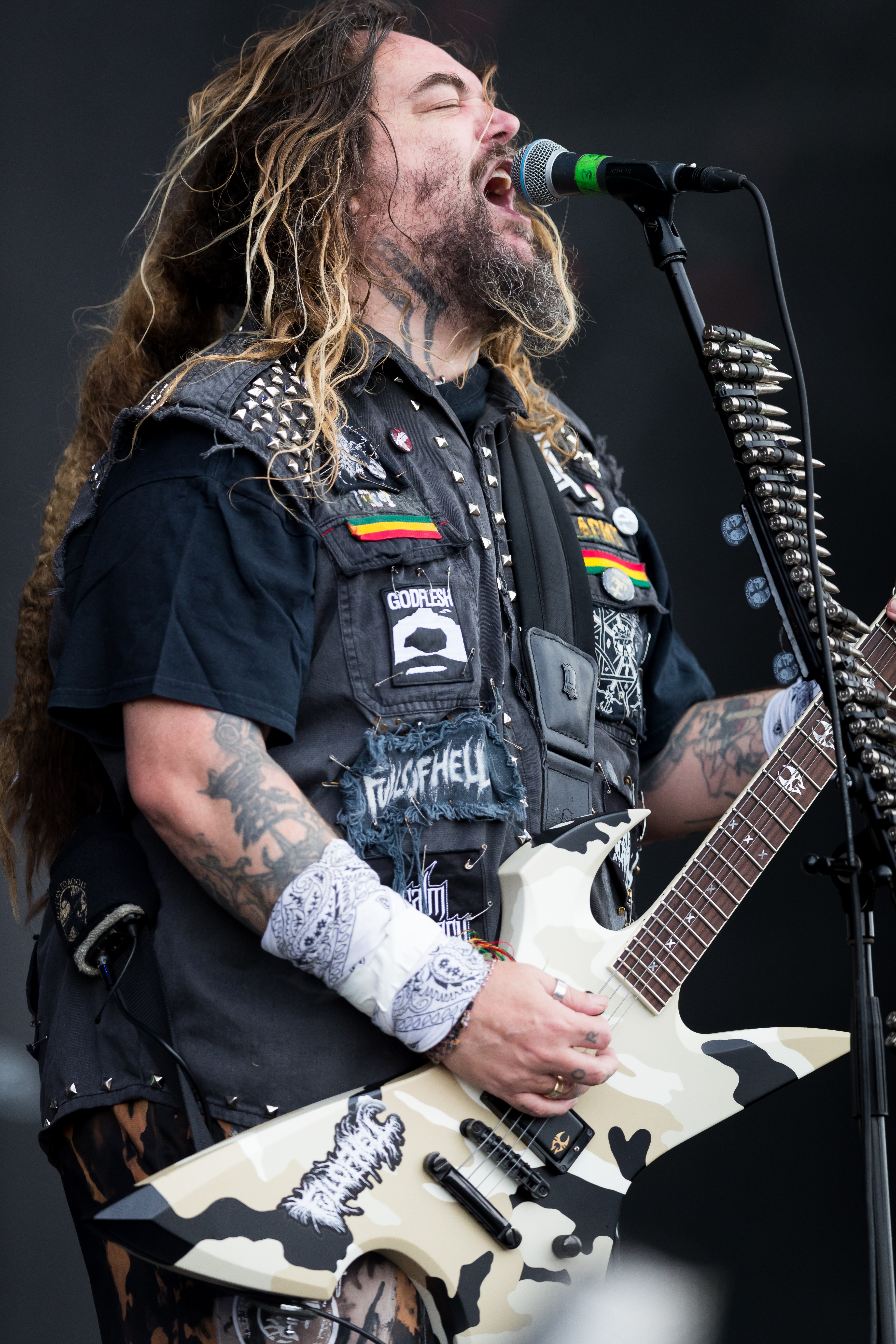 Max & Iggor Cavalera return to Roots during Wacken Open Air at Schleswig-Holstein, Wacken, , Germany on 2017-08-05, Photo: Sven Mandel